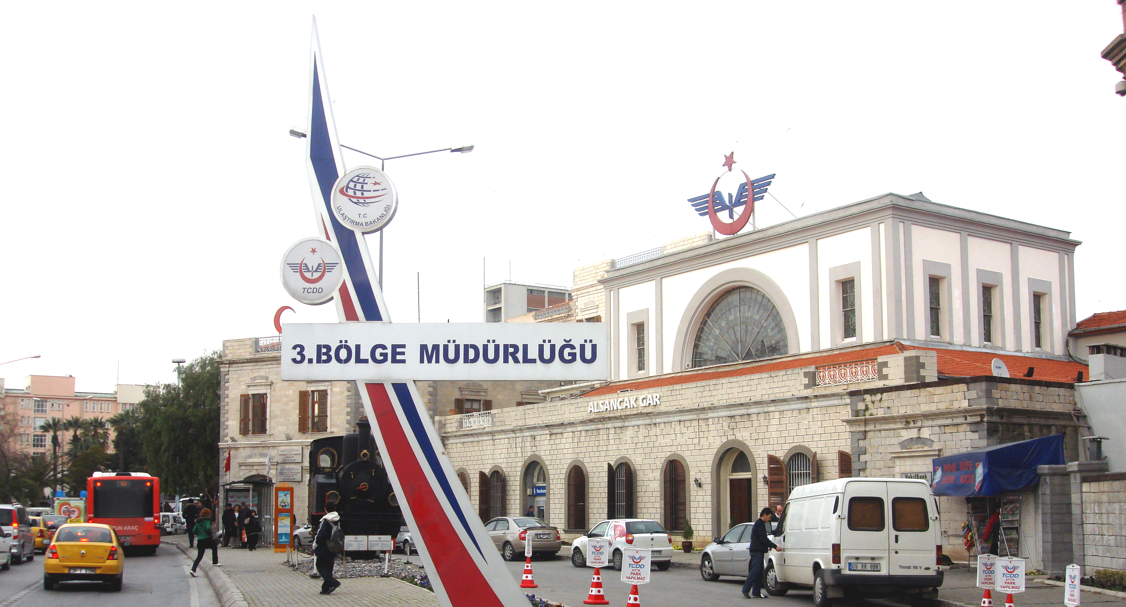 Alsancak Train Station (1858) in Izmir, Turkey.